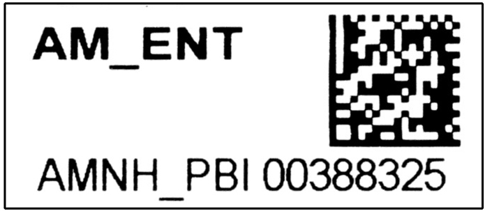 Matrix barcode in use at the entomology collection of the American Museum of Natural History in New York.